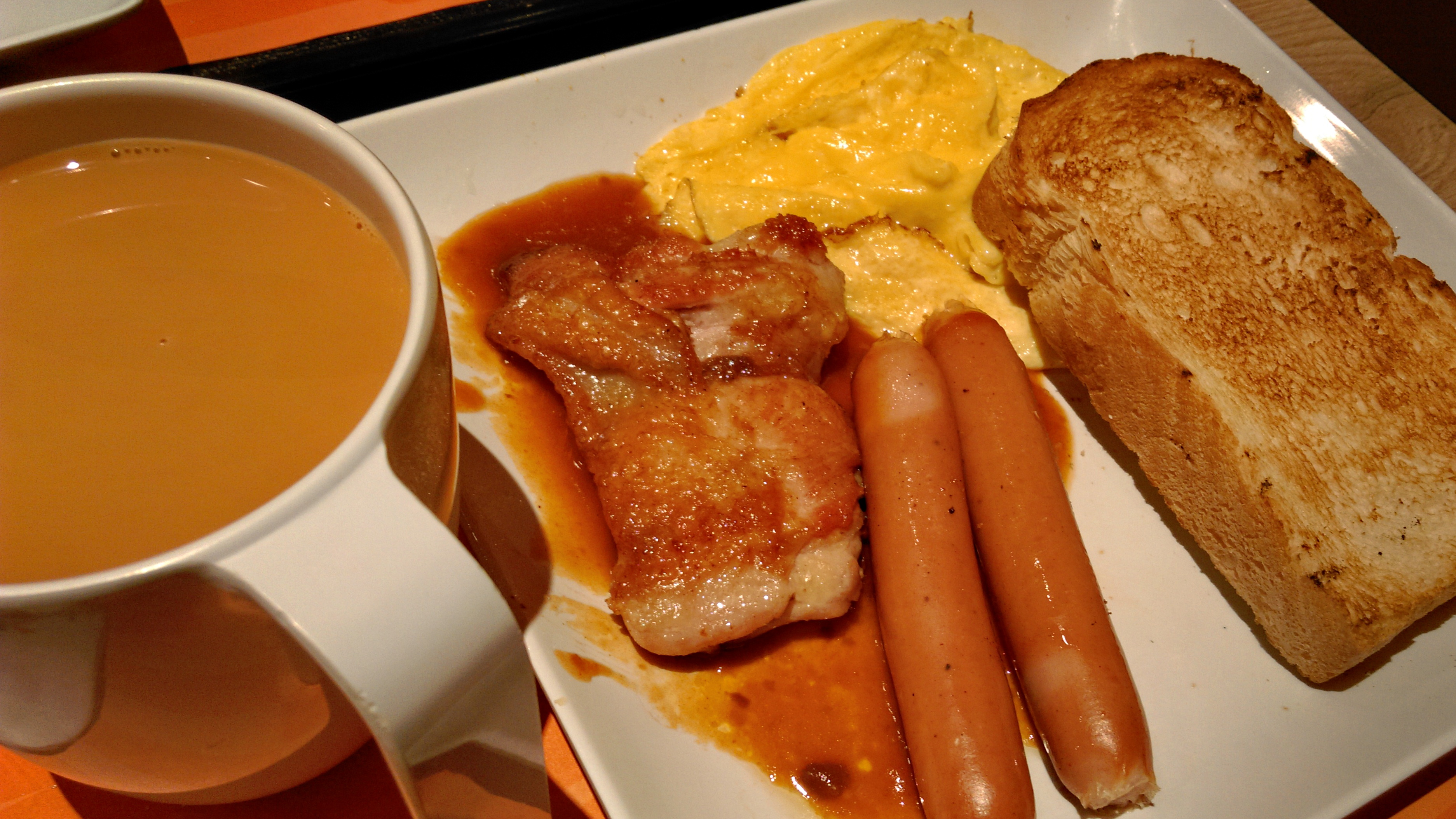 A typical Hong Kong Western Style breakfast served at Fairwood Fast Food.